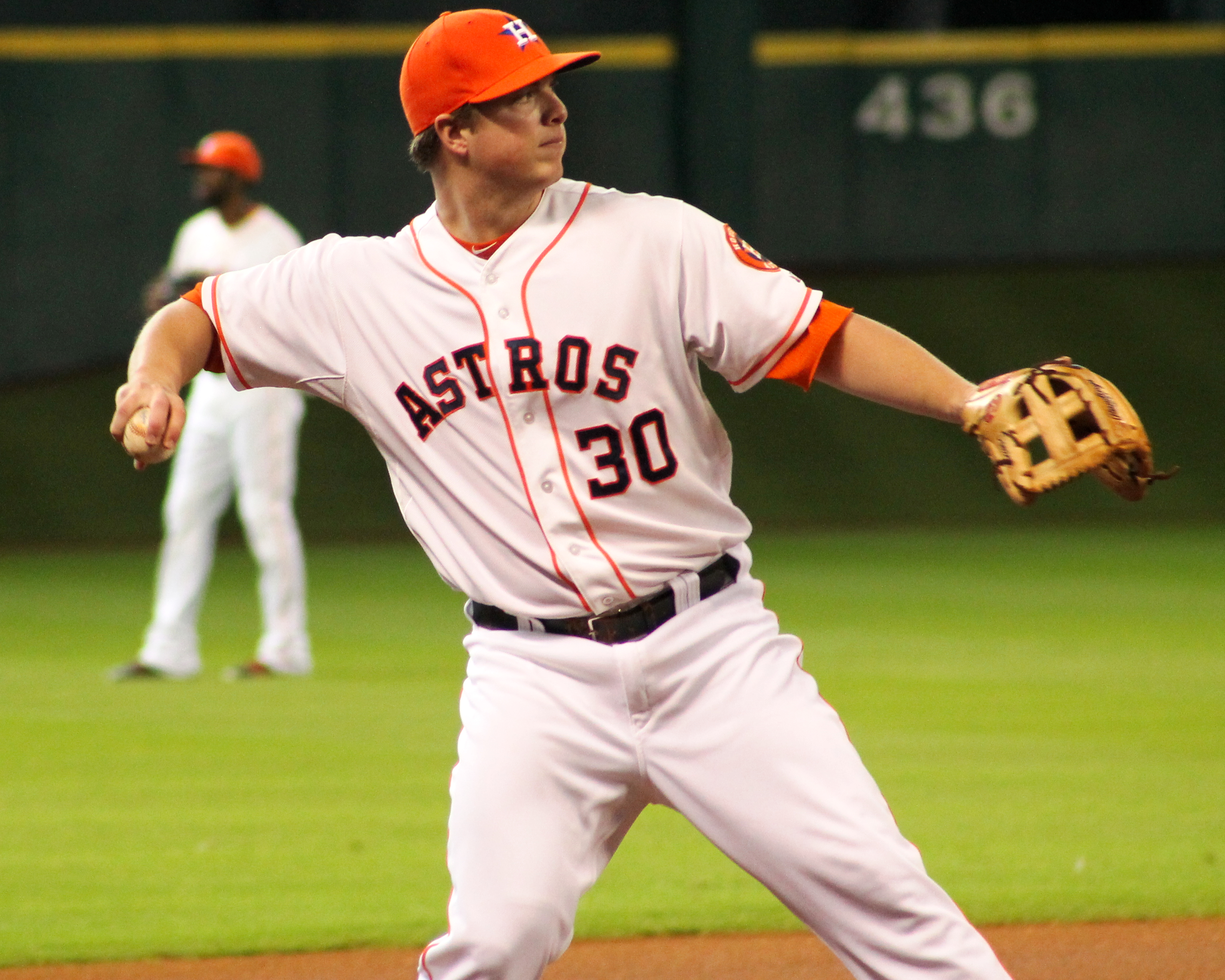 Professional baseball player Matt Dominguez at Minute Maid Park in August 2014.